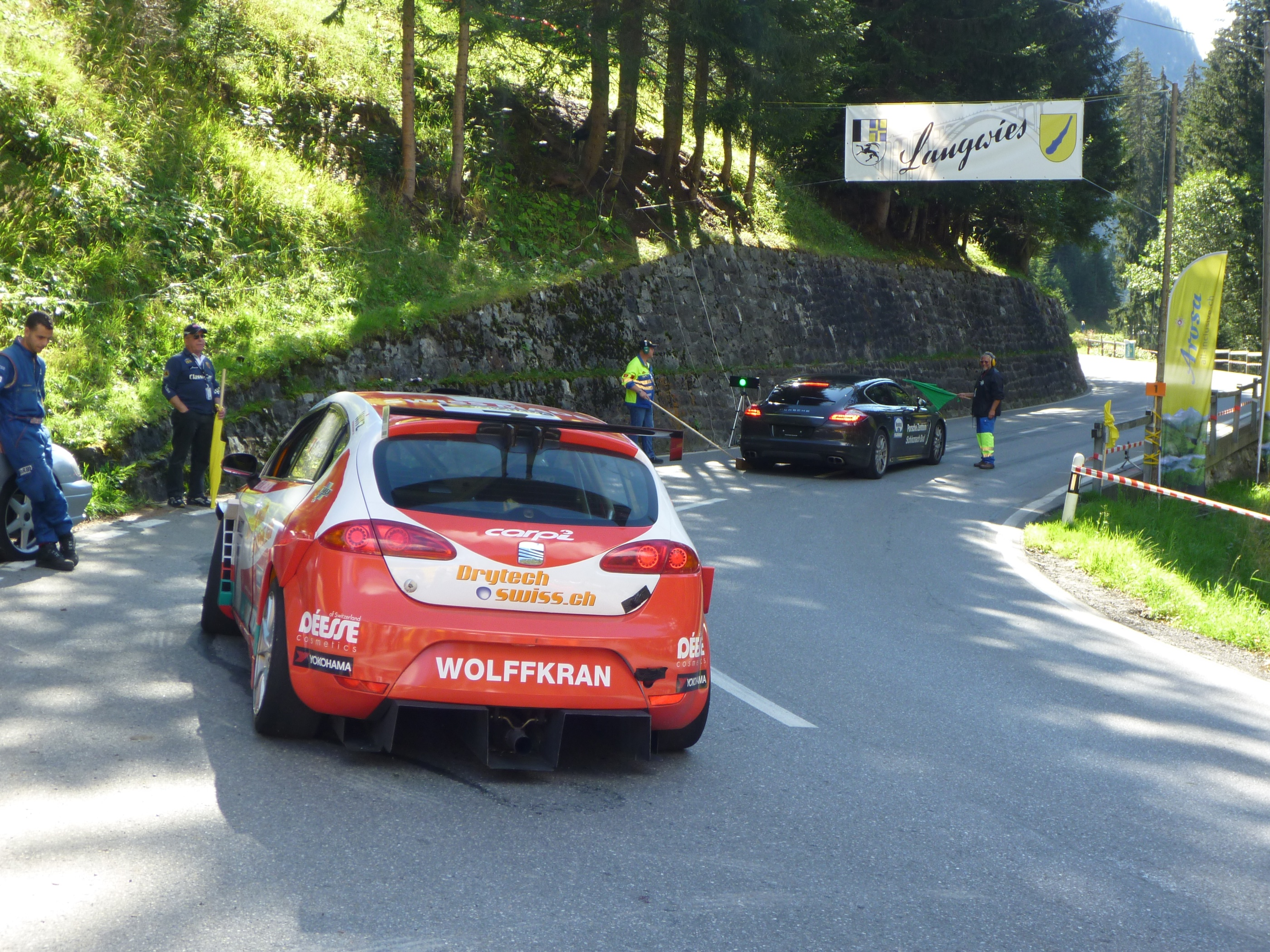 Starting point of Arosa ClassicCar with race taxis